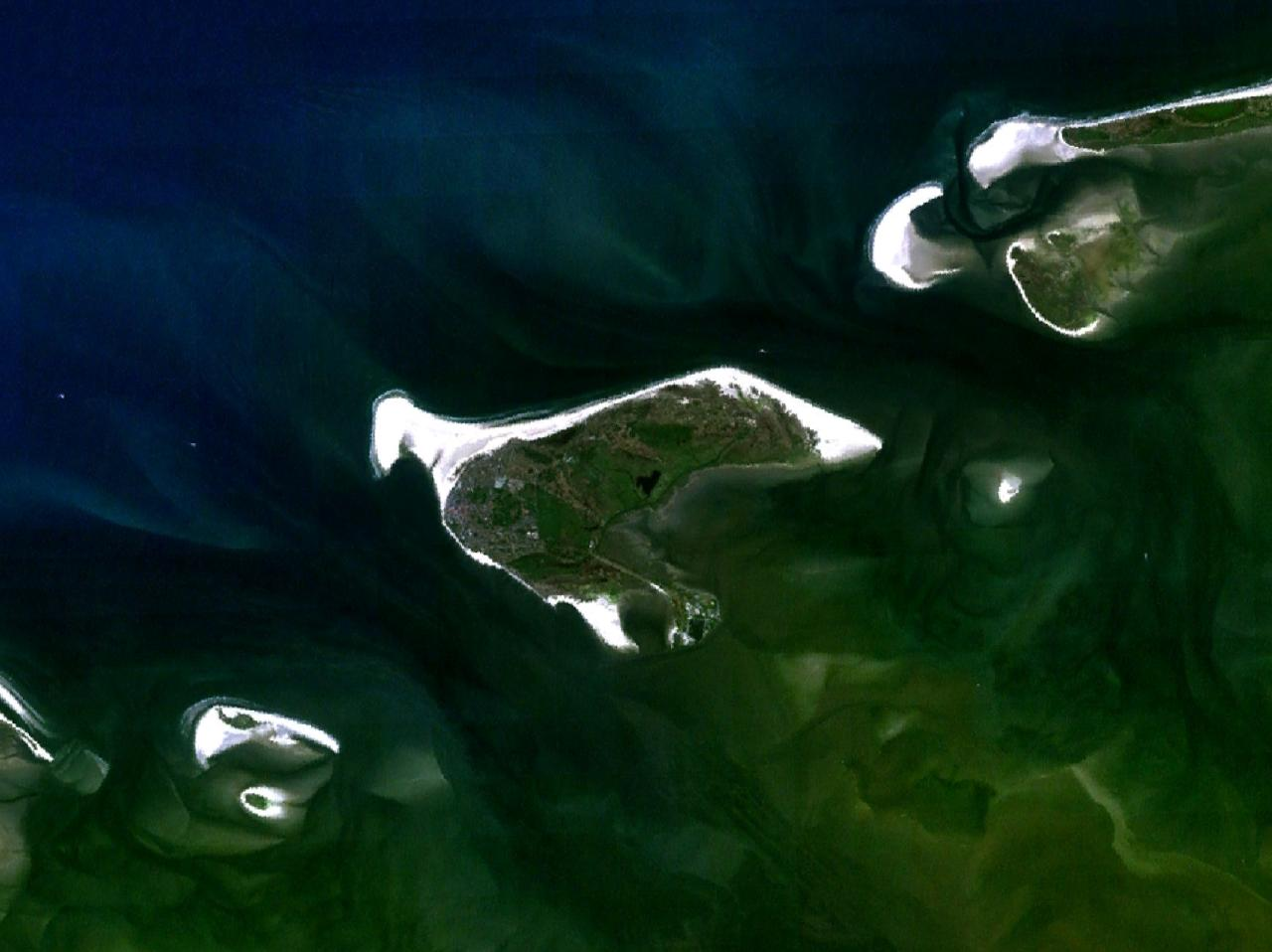 Some West Frisian Islands (Netherlands) and some East Frisian Islands (Germany), from left to right: Rottumerplaat, Rottumeroog (top) with Zuiderduintjes (below), Borkum, Kachelotplate, Juist (top) and Lütje Hörn (below), Memmert